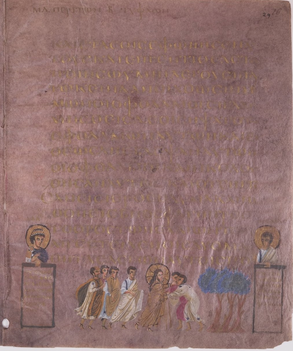 Sinopensis f29r